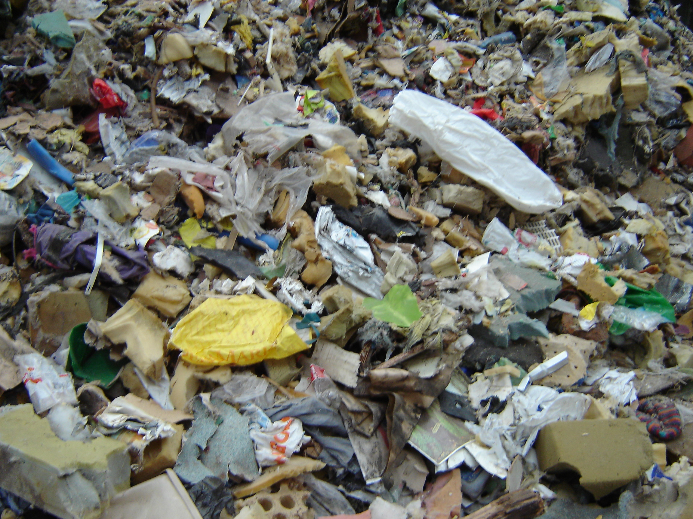 Example of commercial waste before being processed for Refuse-derived fuel. Photo taken in Heiloo, The Netherlands.